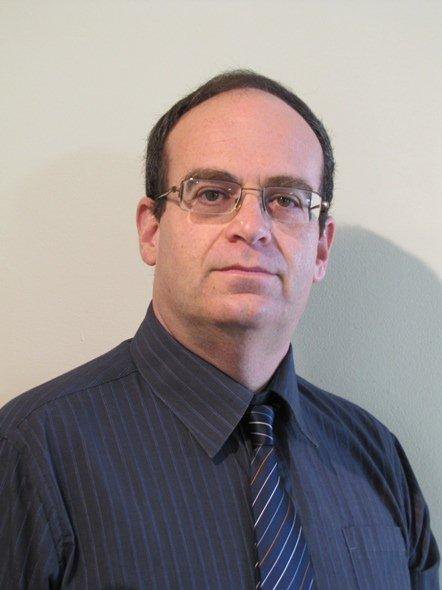 Prof. Avishay Goldberg